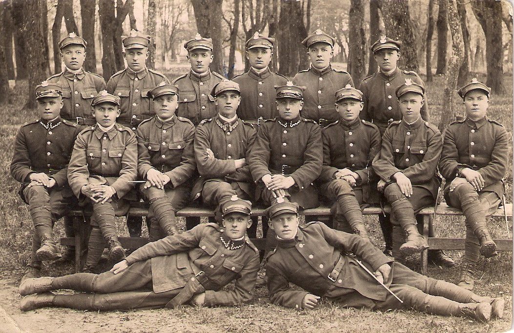 81 Infantry Regiment